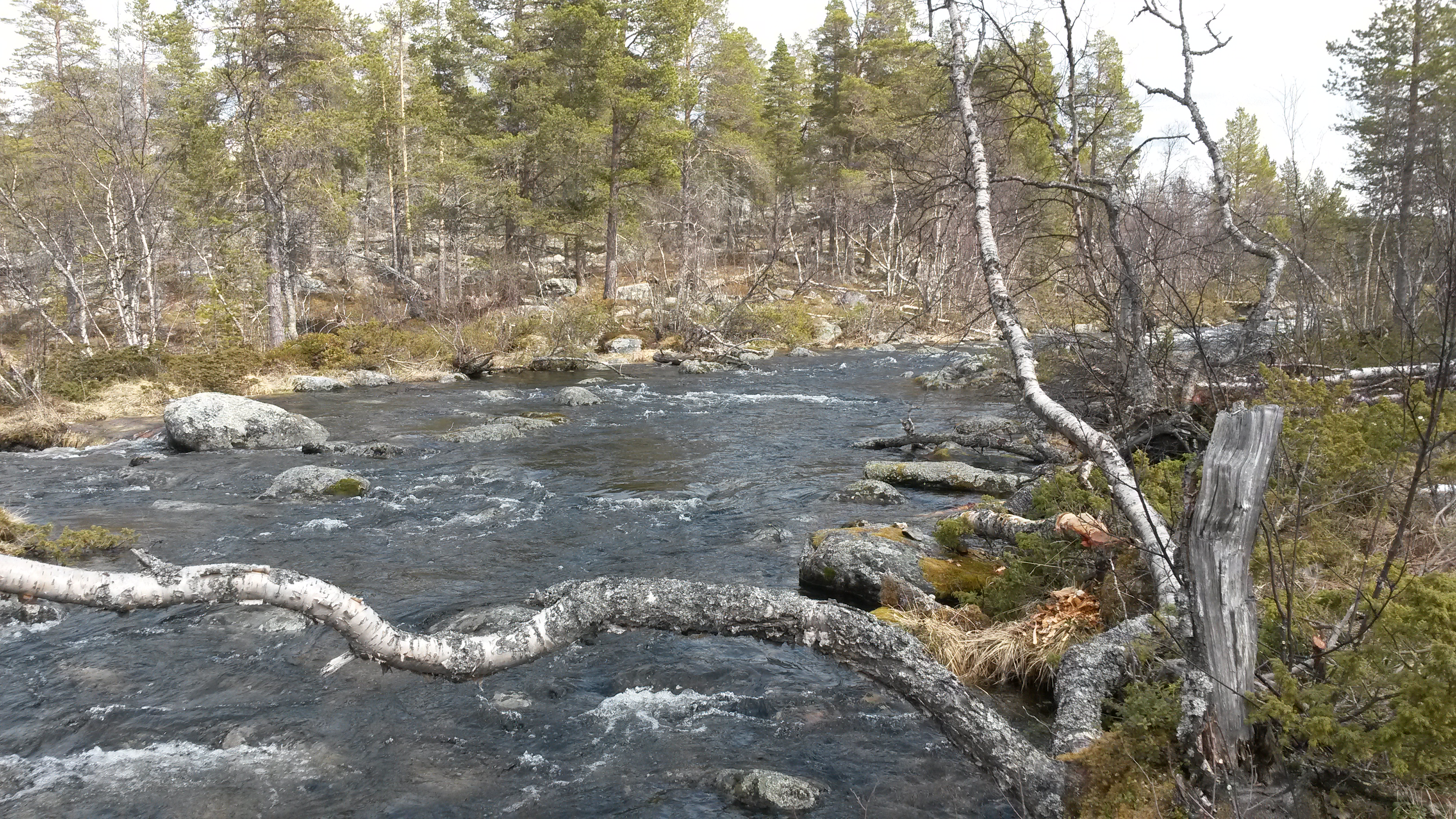 Klarälven/Göta älv near the source in Härjedalen.